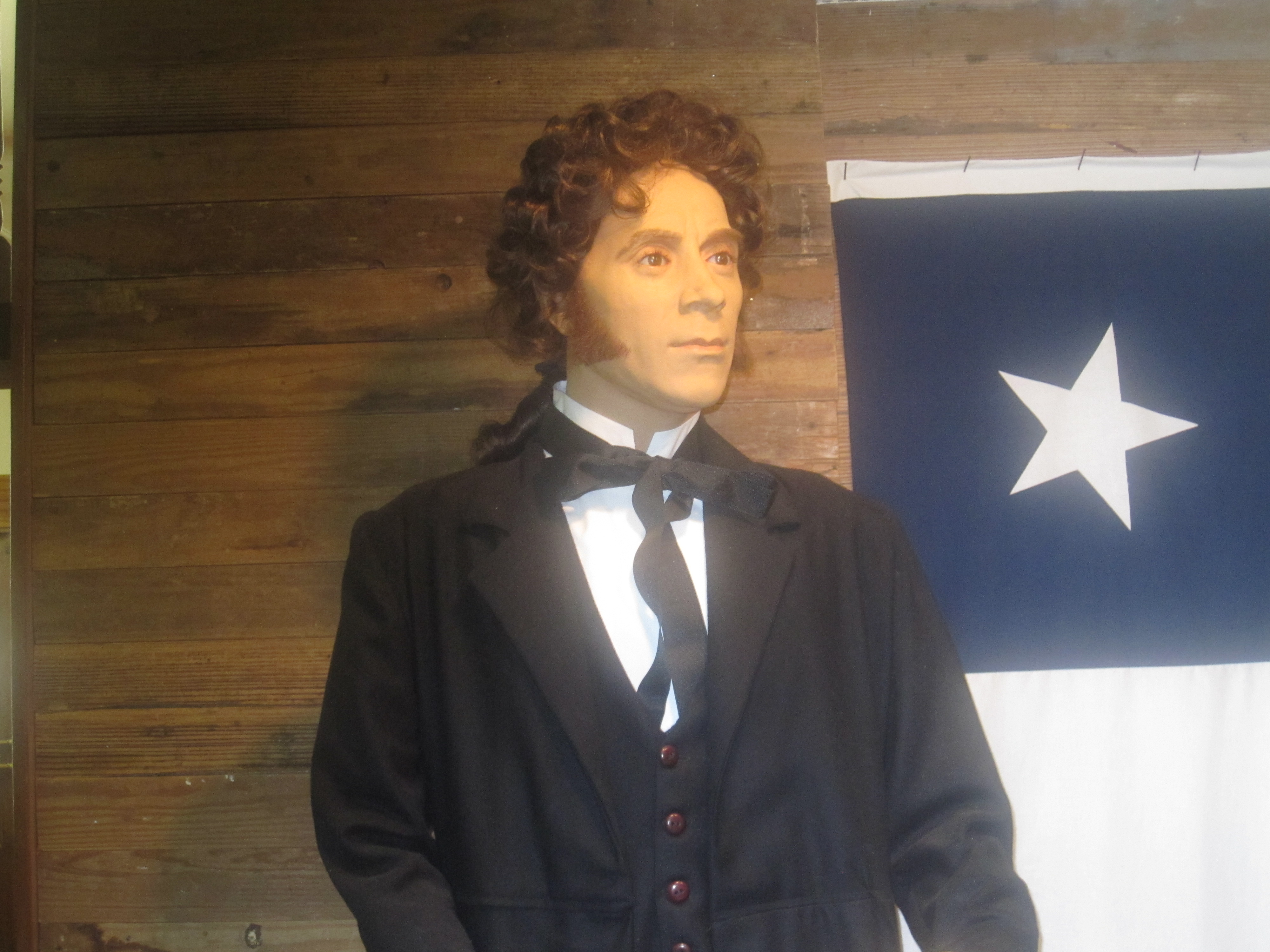 I took photo with Canon camera in Childress, TX.